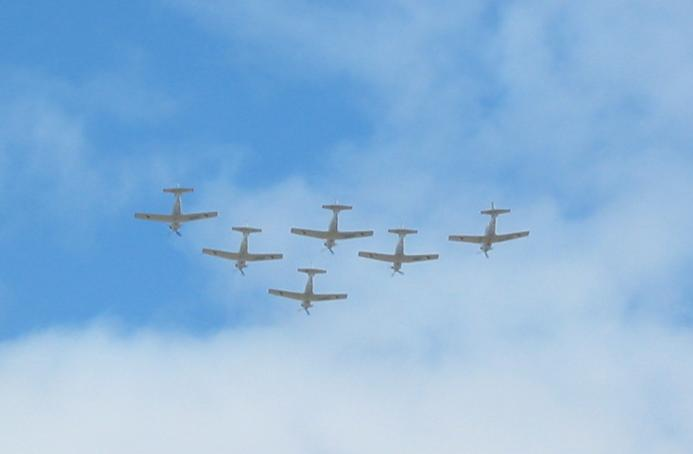 Irish Air Corps Fly-by of Easter Parade, Dublin 2006